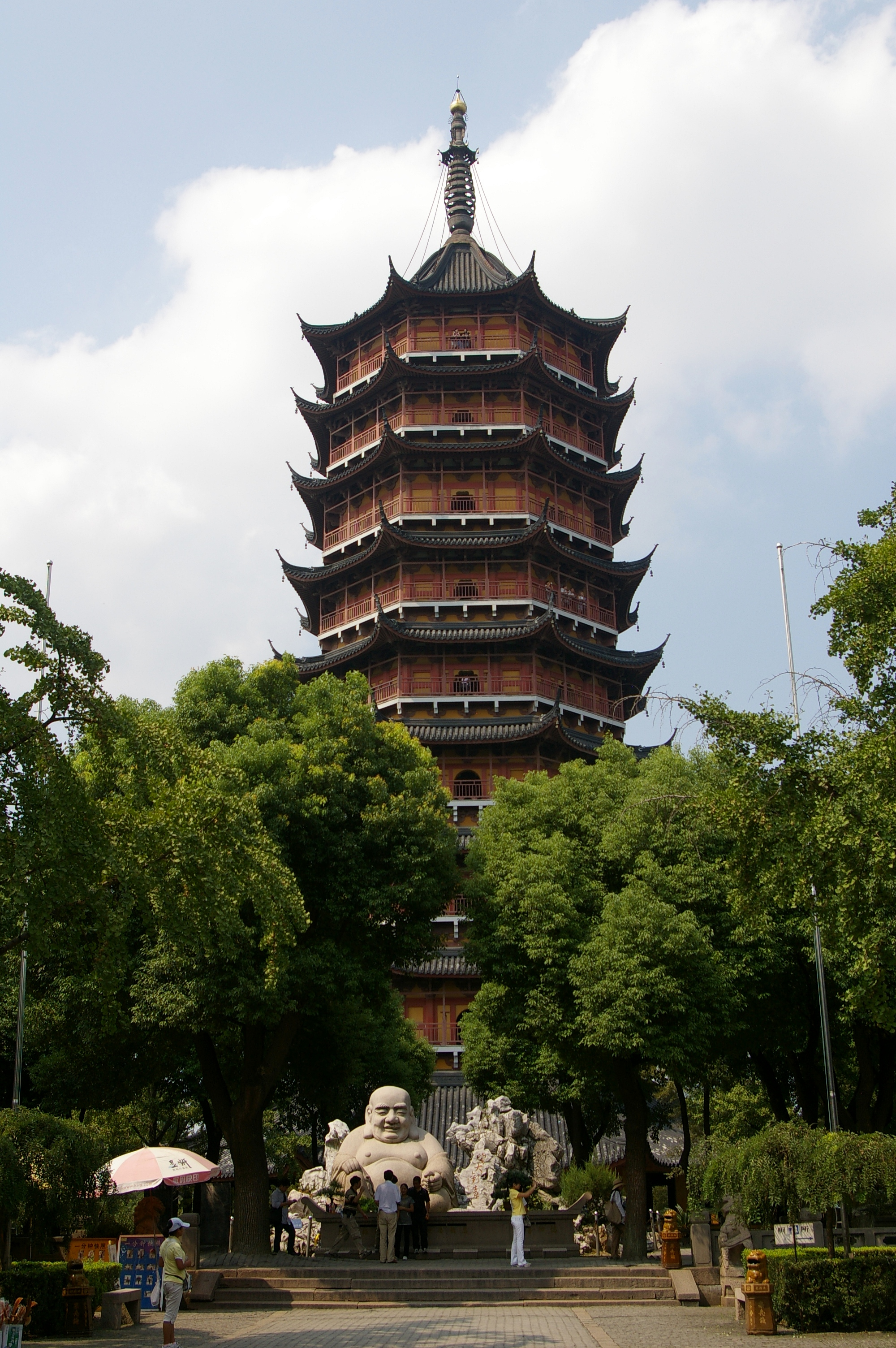 North Temple Pagoda in Suzhou